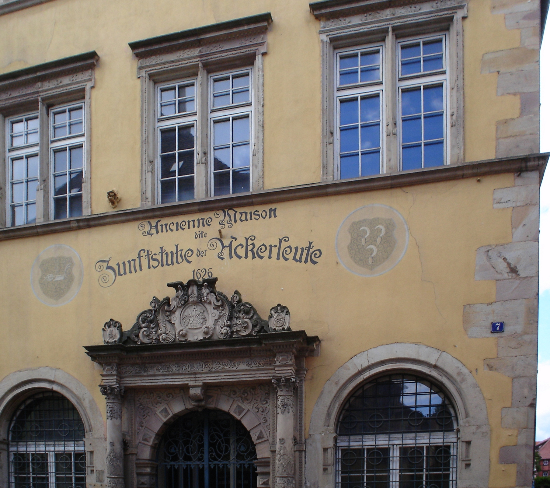 Building in Colmar